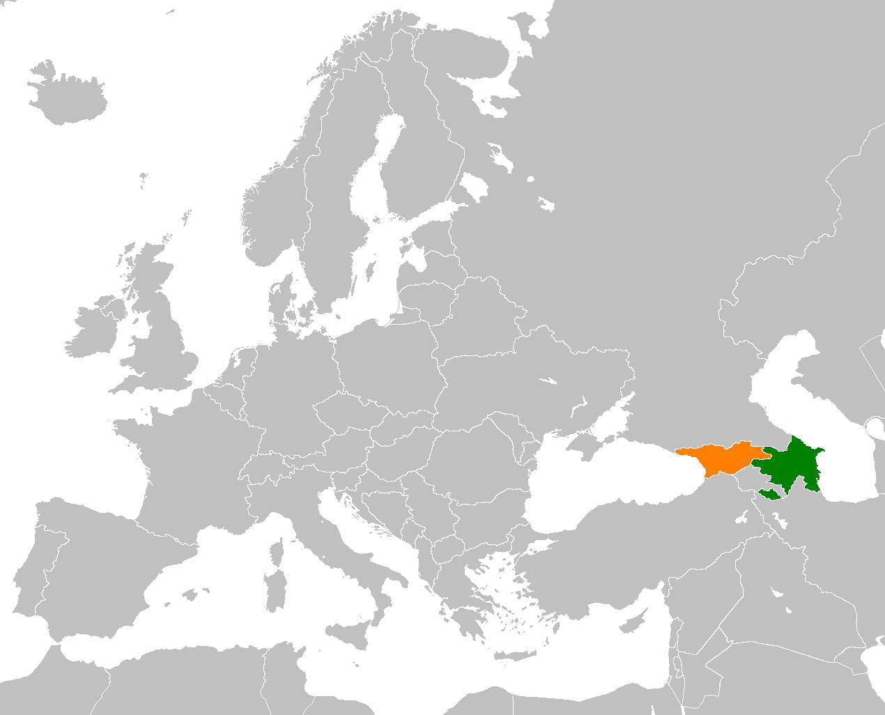 Location of Azerbaijan and Georgia